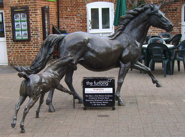 Bronze horse sculpture at The Furlong in Ringwood The notice reads: WARNING These Horses get Hot in Summer The Mare and Foal Bronze Sculpture Created by Priscilla Hann Represents Ringwood's Links with the Old Animal Market & the New Forest